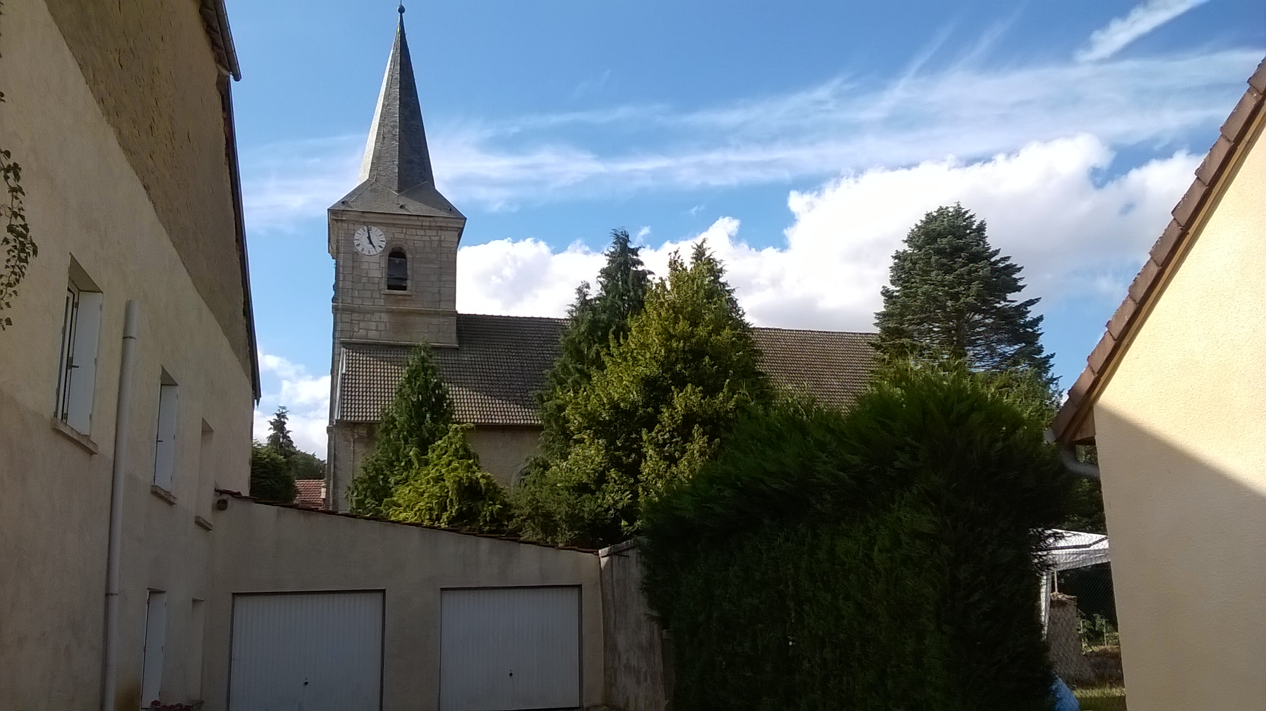 Chapel of Harréville-les-Chanteurs, Haute Marne, France.